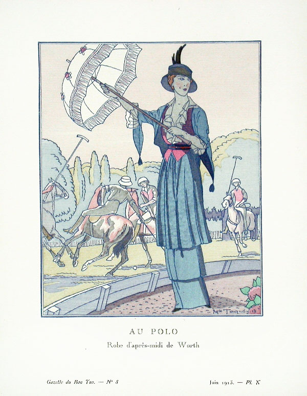 Fashion plate illustrating a dress by the House of Worth Title: "Au Polo. Robe d'Apres-Midi de Worth."